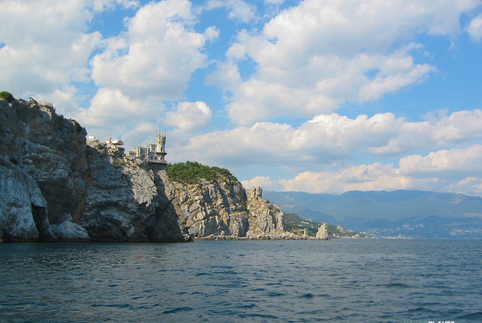 Cape Ai-Todor from the sea, a view from the west